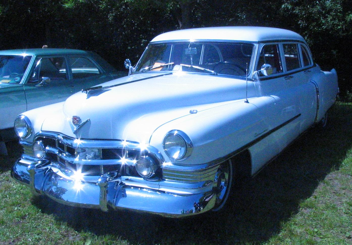 1950 Cadillac photographed in Laval, Quebec, Canada at the Auto classique Laval.